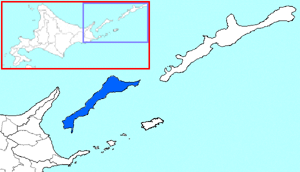 The location of Kunashiri District in Nemuro Subprefecture, Hokkaido Prefecture, Japan.